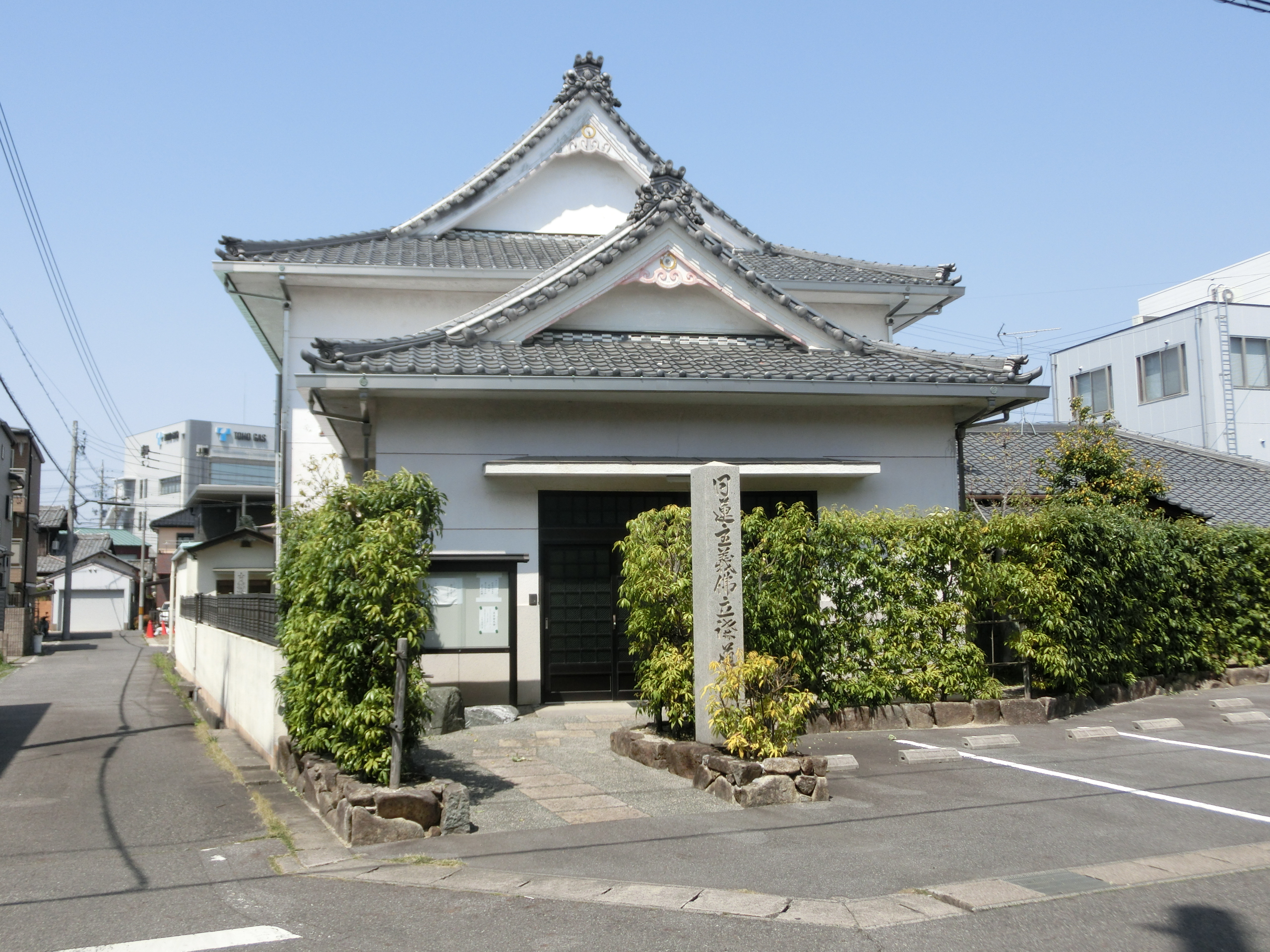 Nichirenshugi-Butsuryuko Headquarters